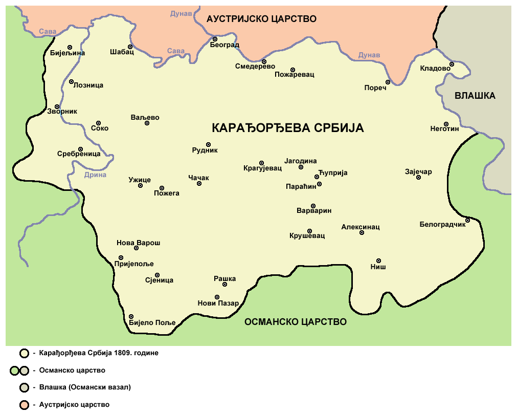 Karađorđe's Serbia in 1809.